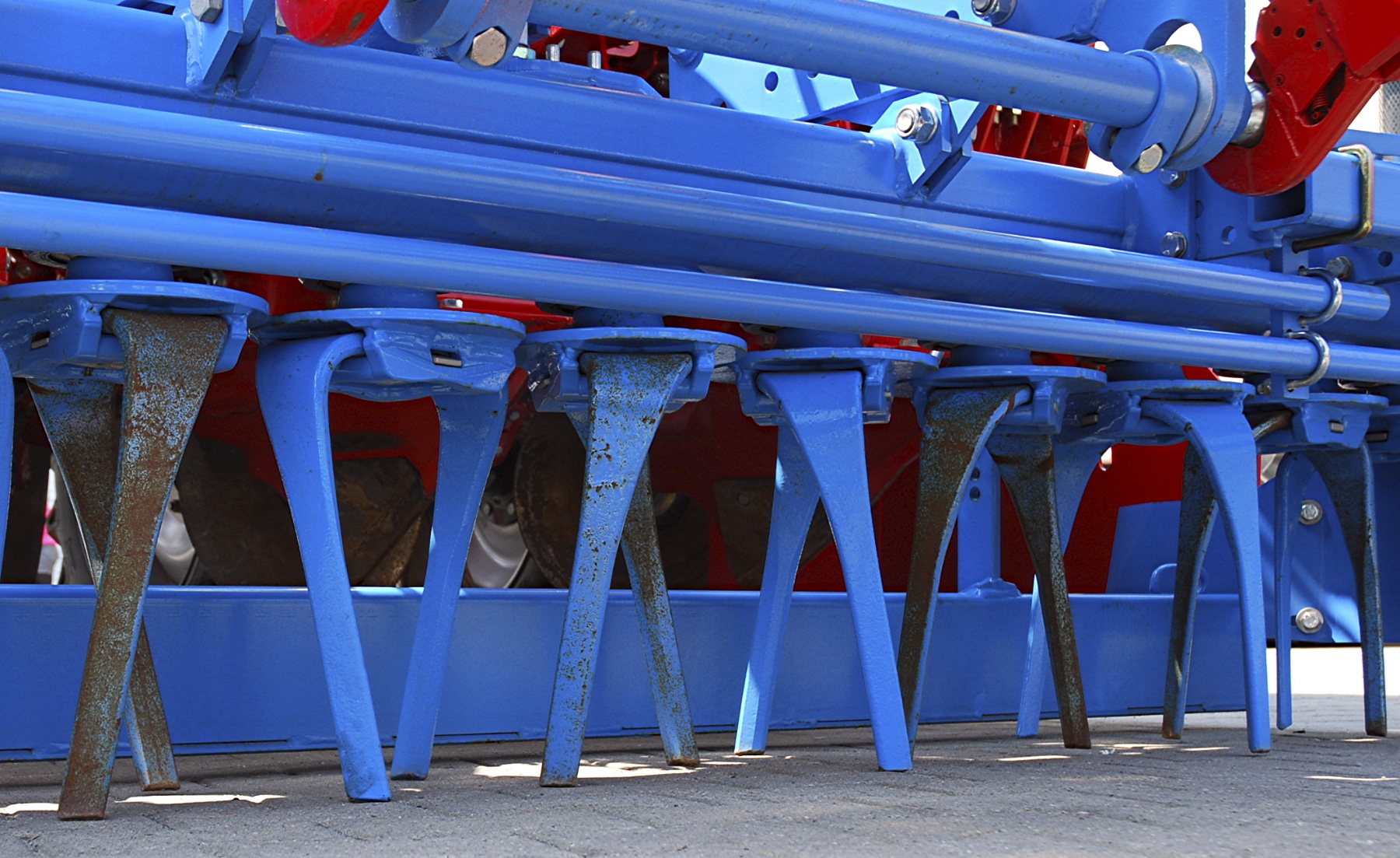 Tractor-side view of the rotating tines and the levelling bar (behind) of a Lemken Zirkon 10/300 rigid power harrow (blue), which is mounted to the drawbar frame of a trailed potato planter (red) here. – This rotary harrow has a working width of 3 m, and is equipped with 12 counter-rotating rotors (and hence with 12 tine carriers with a pair of tines each). The tine carriers are aligned slightly shifted against each other. The Dual-Shift transmission of the Zirkon 10 series, which was established in 2003, allows adjustment of the rotating speed, as well as – without manual replacement of tines – alteration of the tine rotating direction (switching between standard "drag" and more aggressive "grip" operation mode). The long tines visible here are of the SZ 38 type (quick-change tines with a length of 38 cm). They are suitable especially for soil loosening in potato farming.